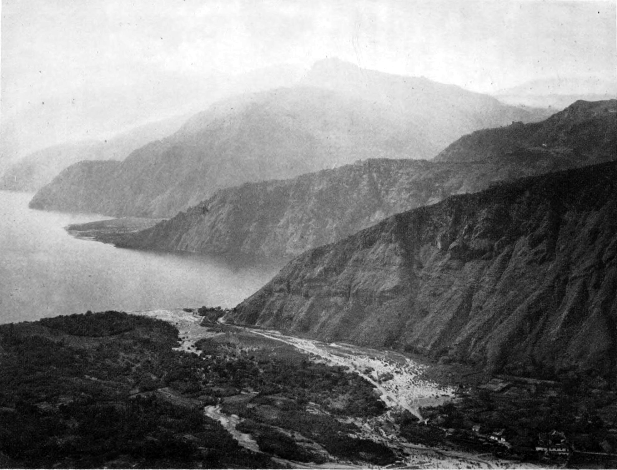 Panajachel, Sololá in 1895.